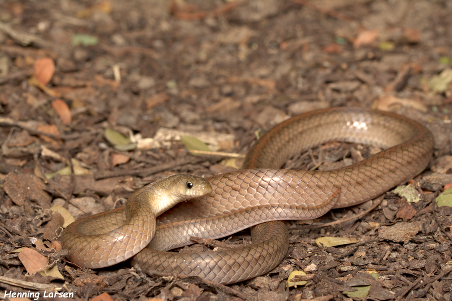 Oligodon huahin. New species, published 2017